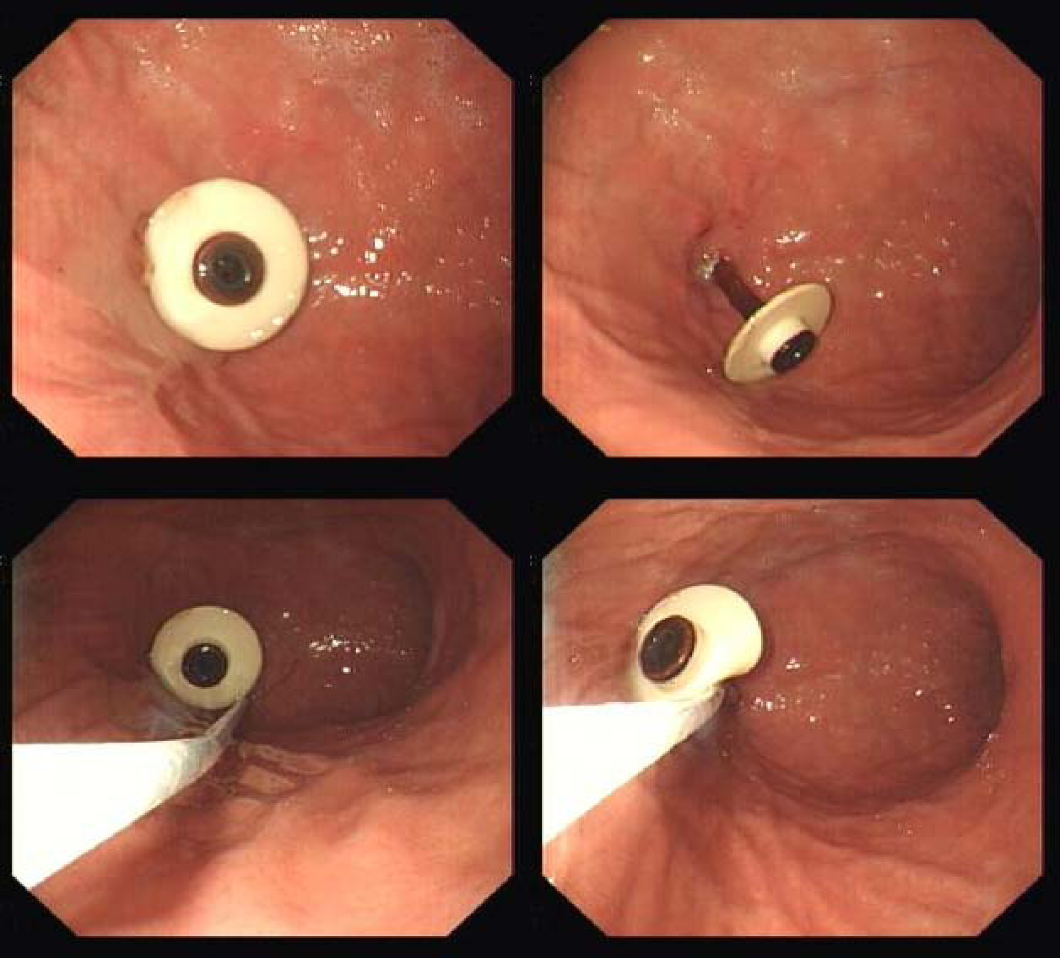 PEG tube in situ in stomach. The tube is pushed in to the stomach, an endoscopy snare is placed round the tube, and closed. The tube is then pulled up through the oesophagus and removed through the mouth.